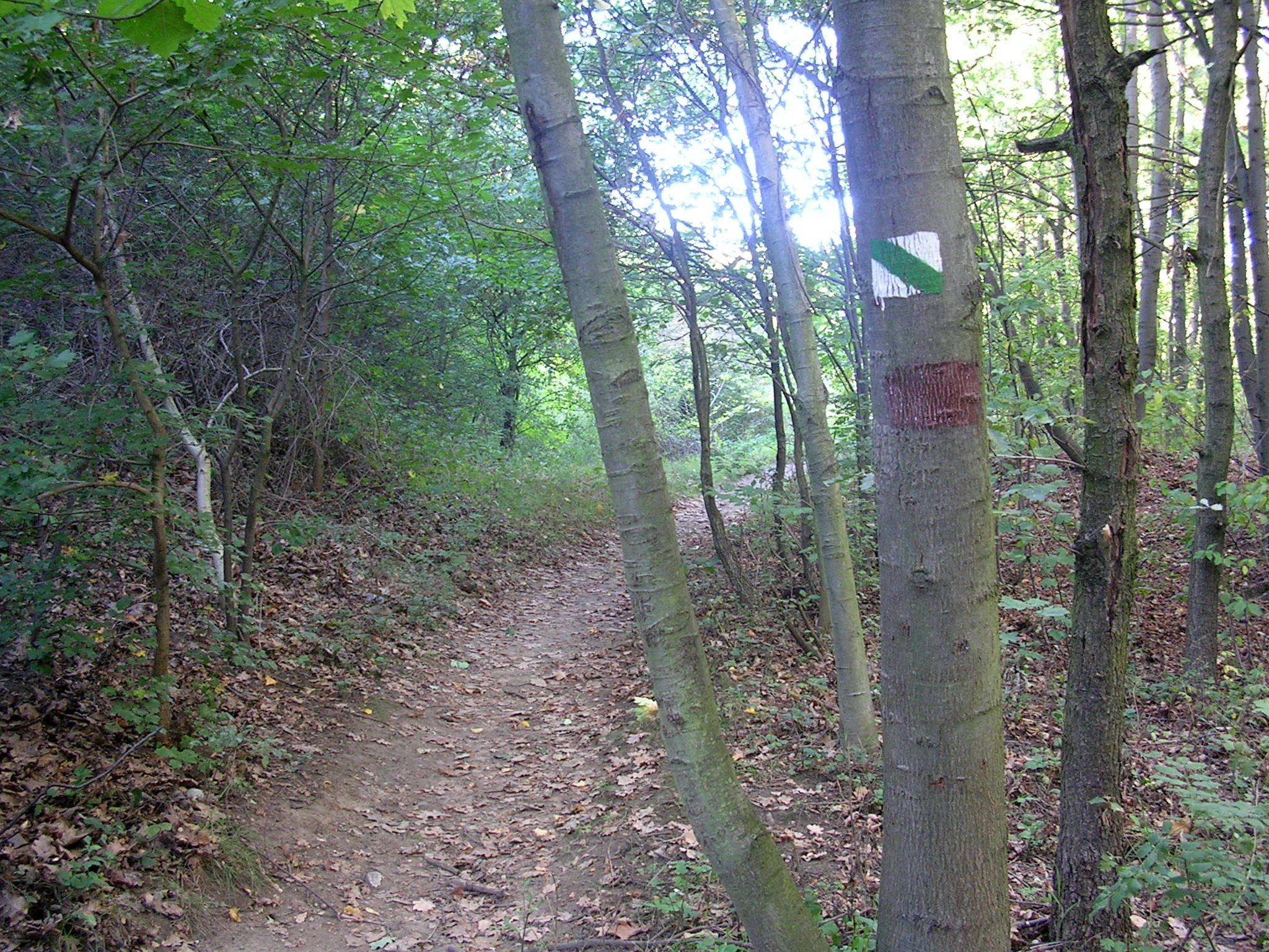 Sign of educational trail. Prague, Troja.